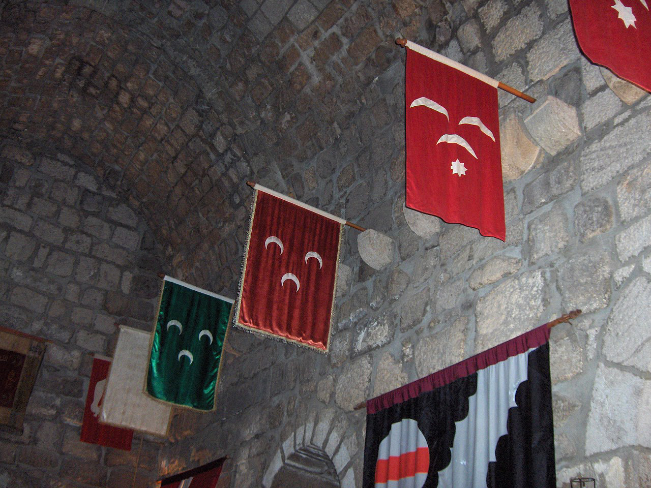 reconstructions of flags used in the Ottoman Empire; on exhibit in the English tower, St. Peter's castle, Bodrum, Turkey (from left to right) Flag of Algerian pirates; Flag given to Osman I by the Seljuk sultan Mesud II (1289); Ottoman naval flag (16th c.); Ottoman army flag (16th c.); Ottoman army flag (17th c.)